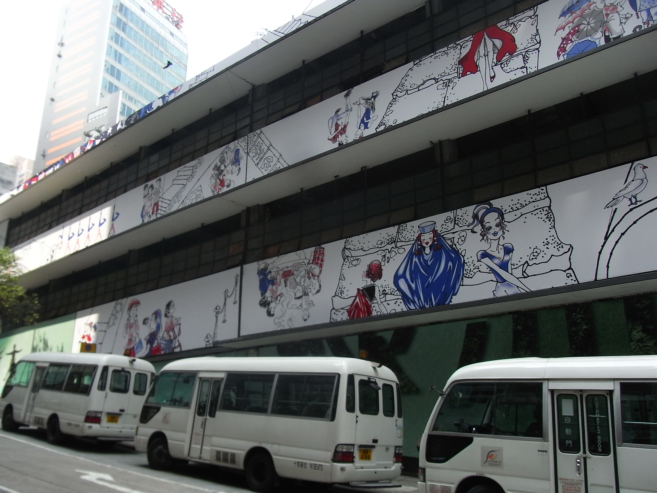 Central Market, Central, Hong Kong